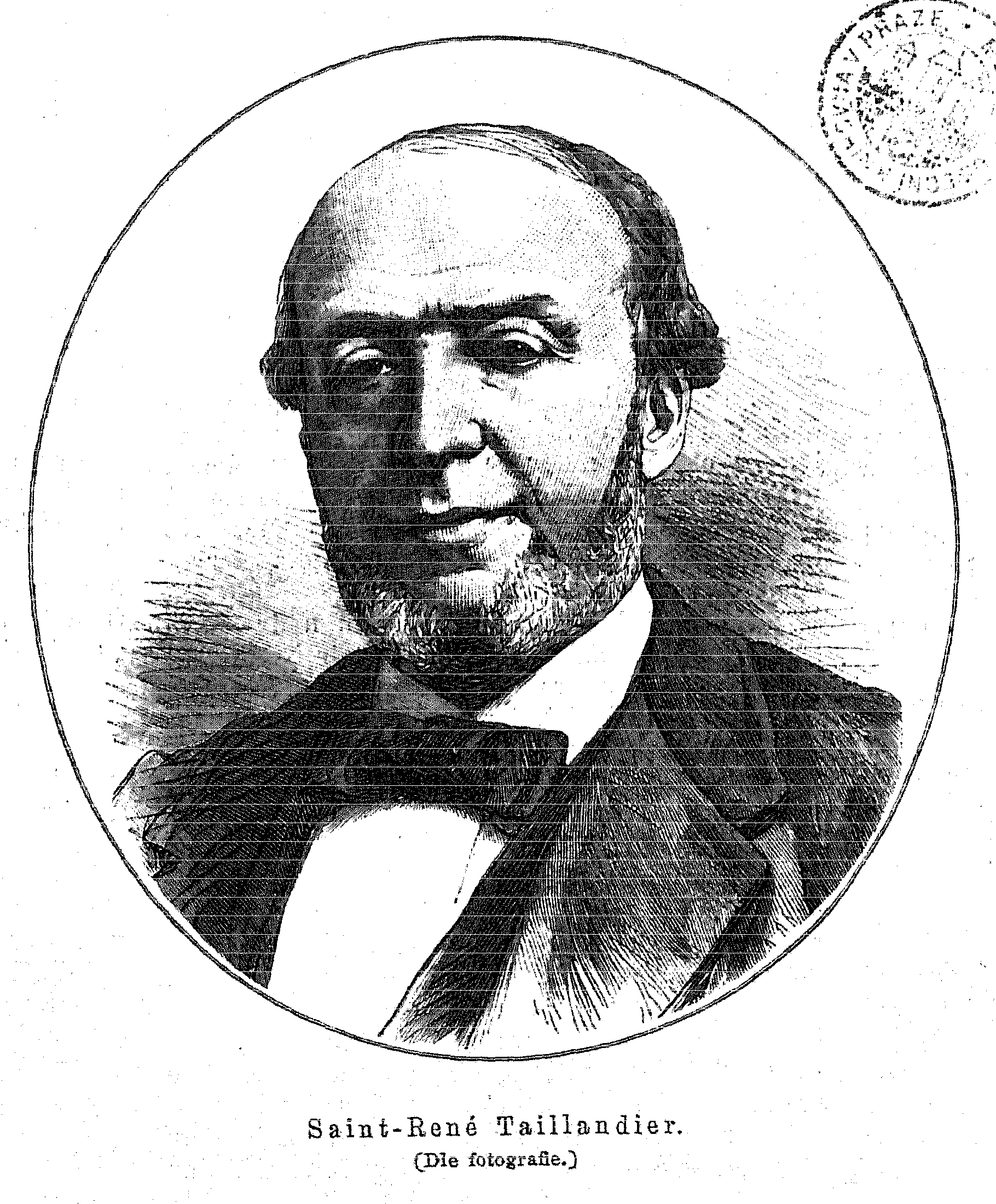 Portrait of Saint-René Taillandier (1817 - 1879), French writer and critic.